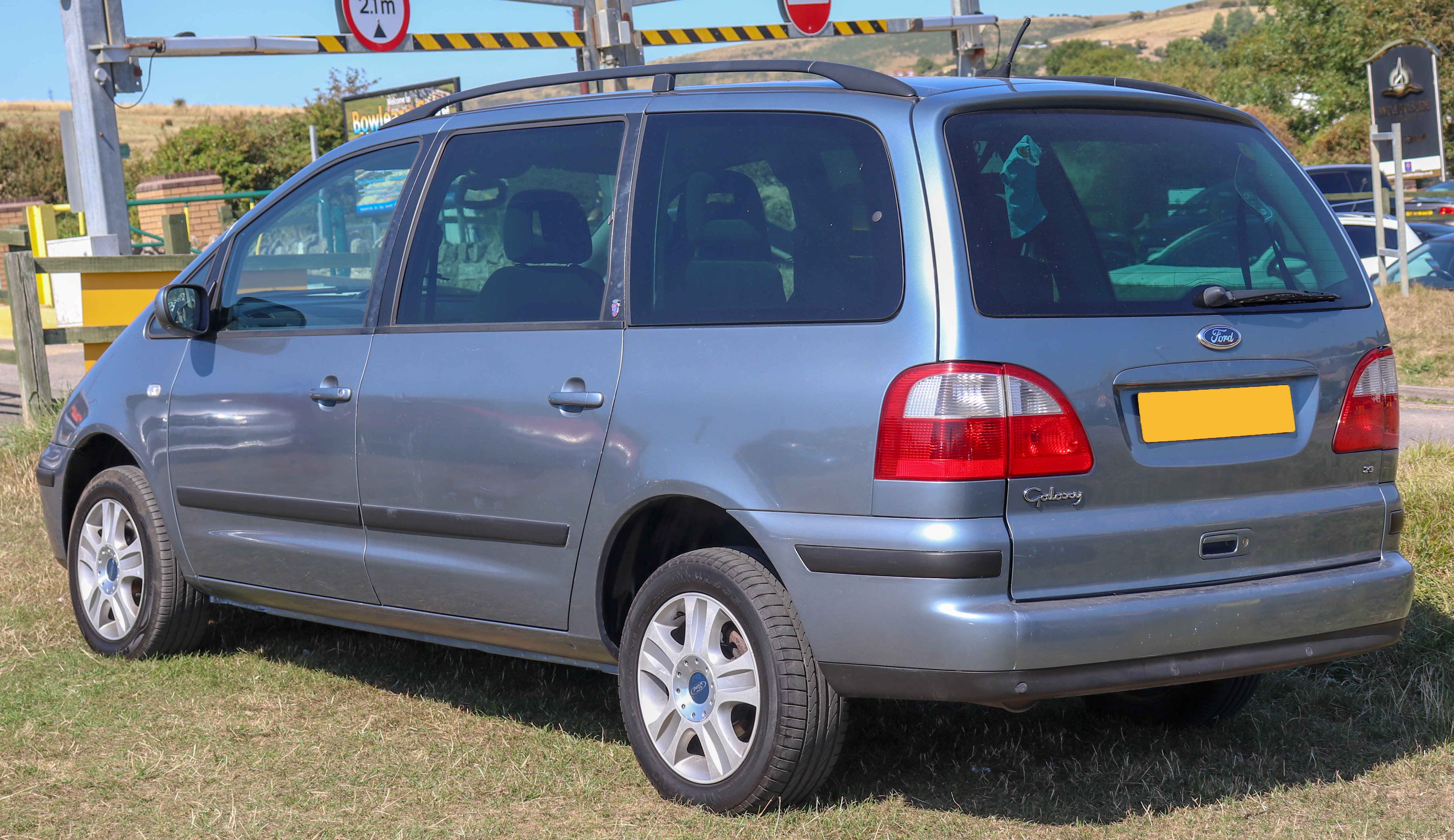 2001 Ford Galaxy Ghia 16V 2.3 Rear (Very well kept example, the badges on most of these tend to fades out) Taken in Weymouth, Dorset